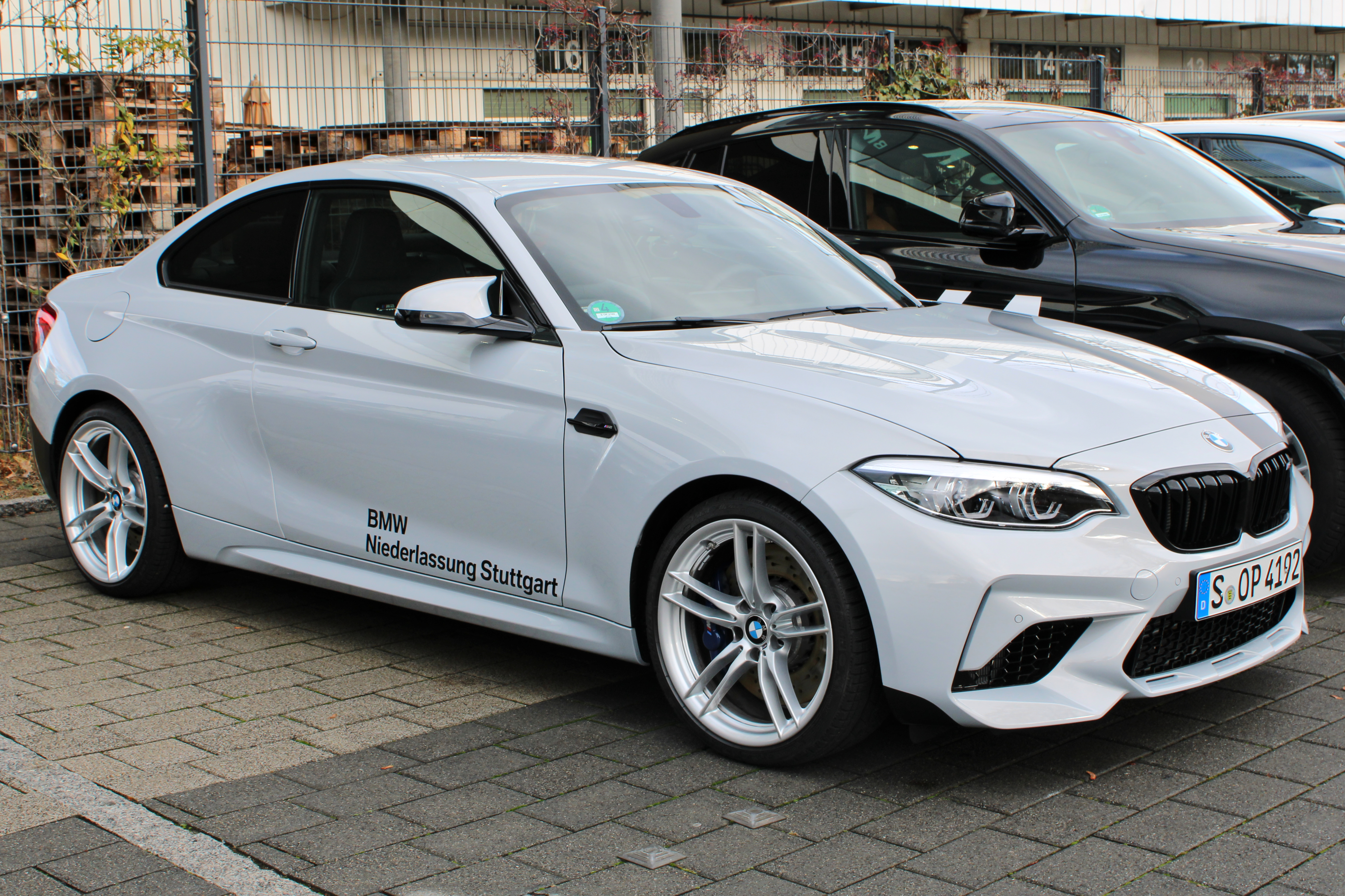 BMW M2 Competition in Stuttgart-Vaihingen